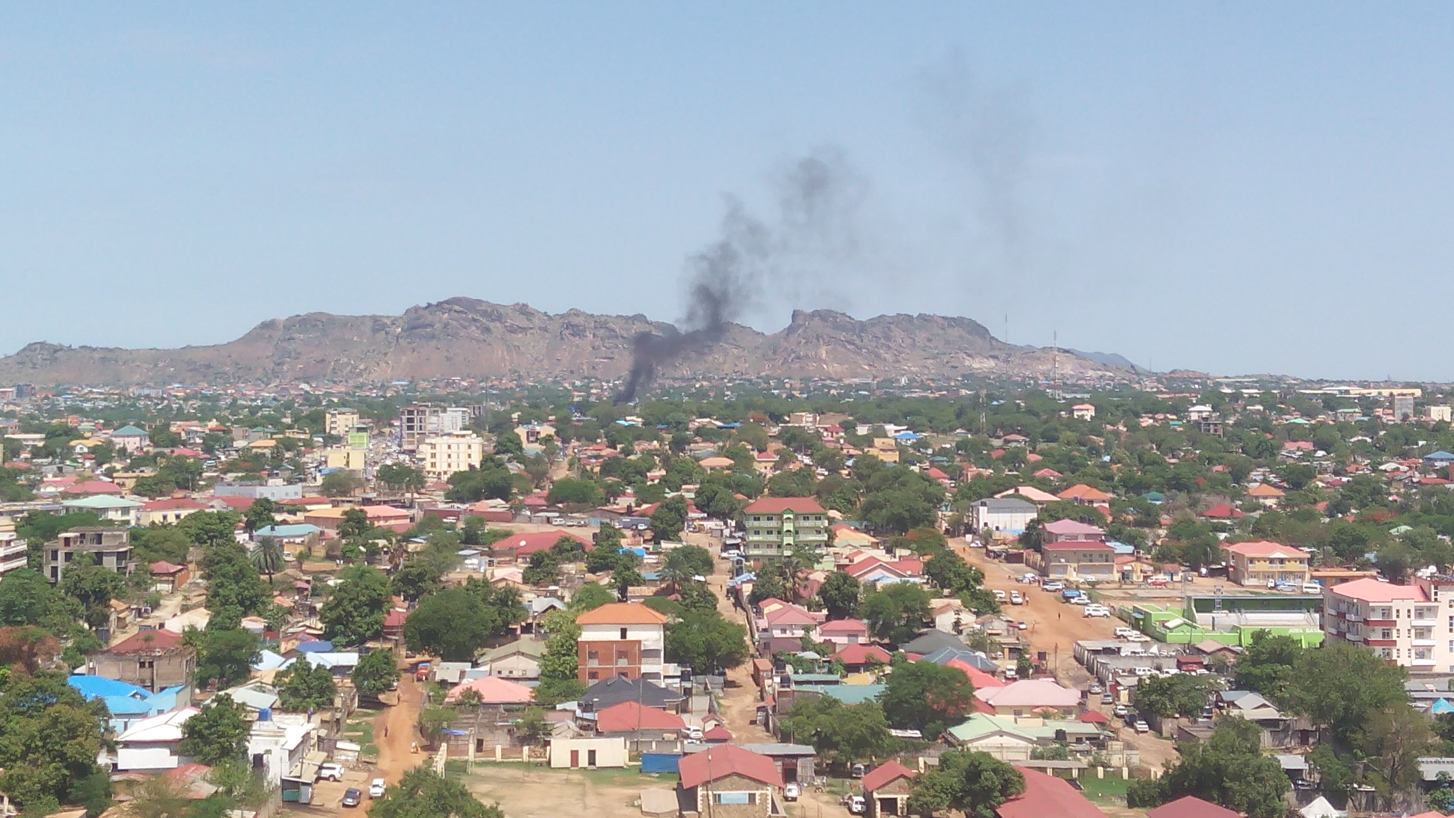 panorama view This is an image of music and dance from South Sudan